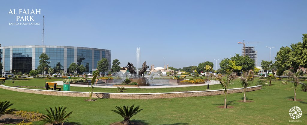 Parks in Bahria Town Lahore